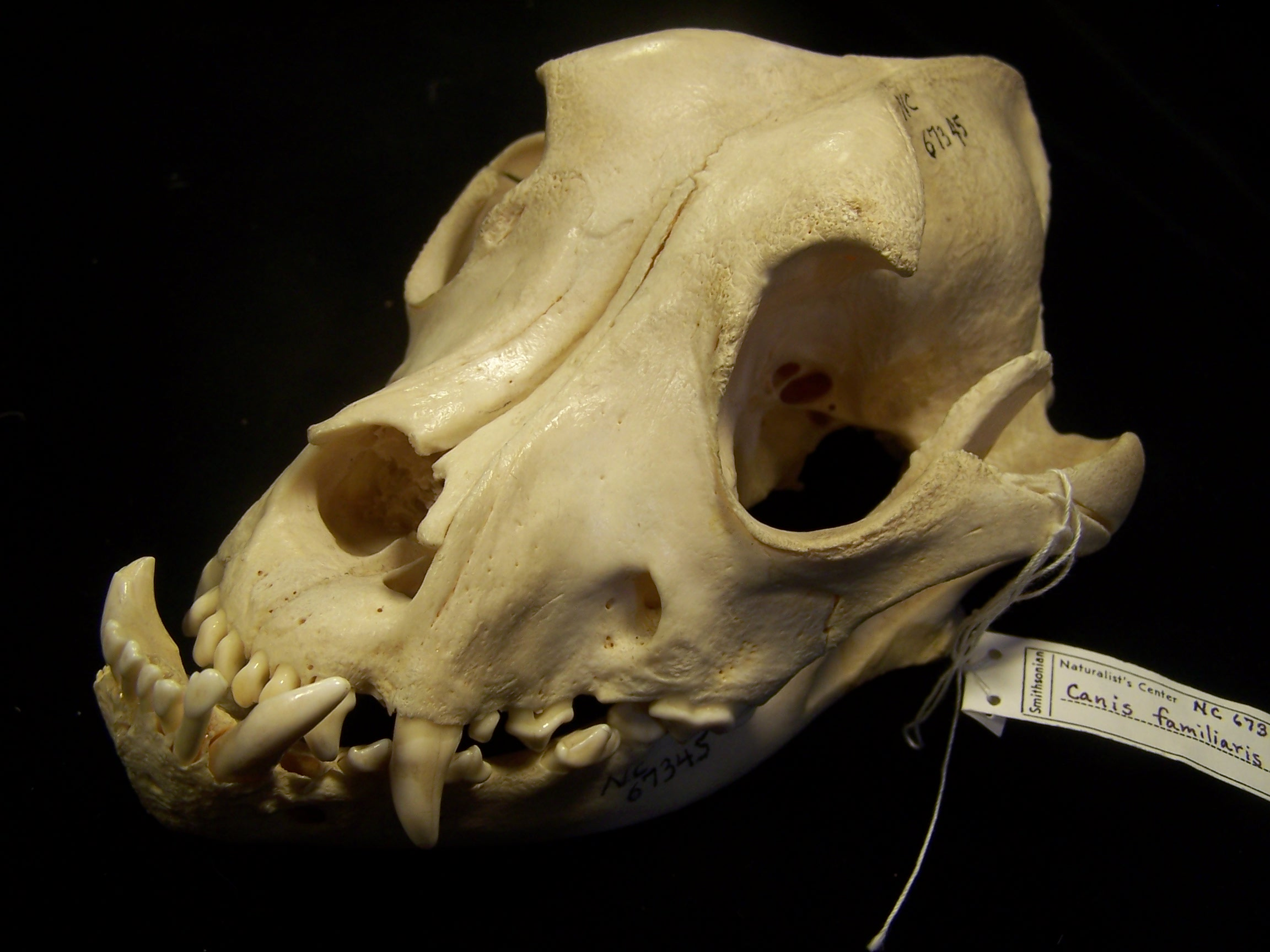 I took this photograph myself. Smithsonian Naturalist Center NC 67345. Canis familiaris. Dog underbite